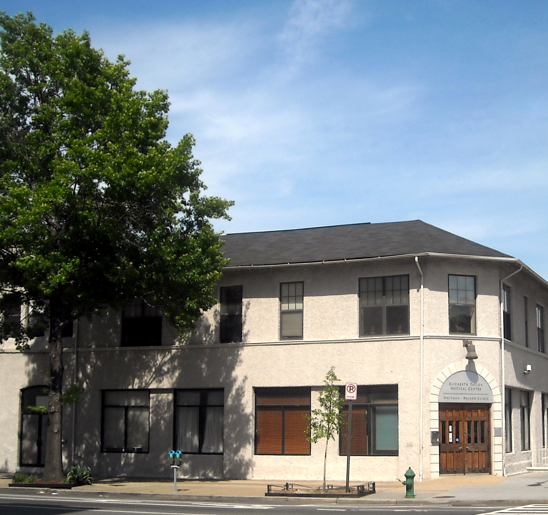 The Elizabeth Taylor Medical Center, the Whitman-Walker Clinic's main facility, located at 1701 14th Street, NW in the Logan Circle neighborhood of Washington, D.C. The building is a contributing property to the Greater Fourteenth Street Historic District and valued at $14,041,000.